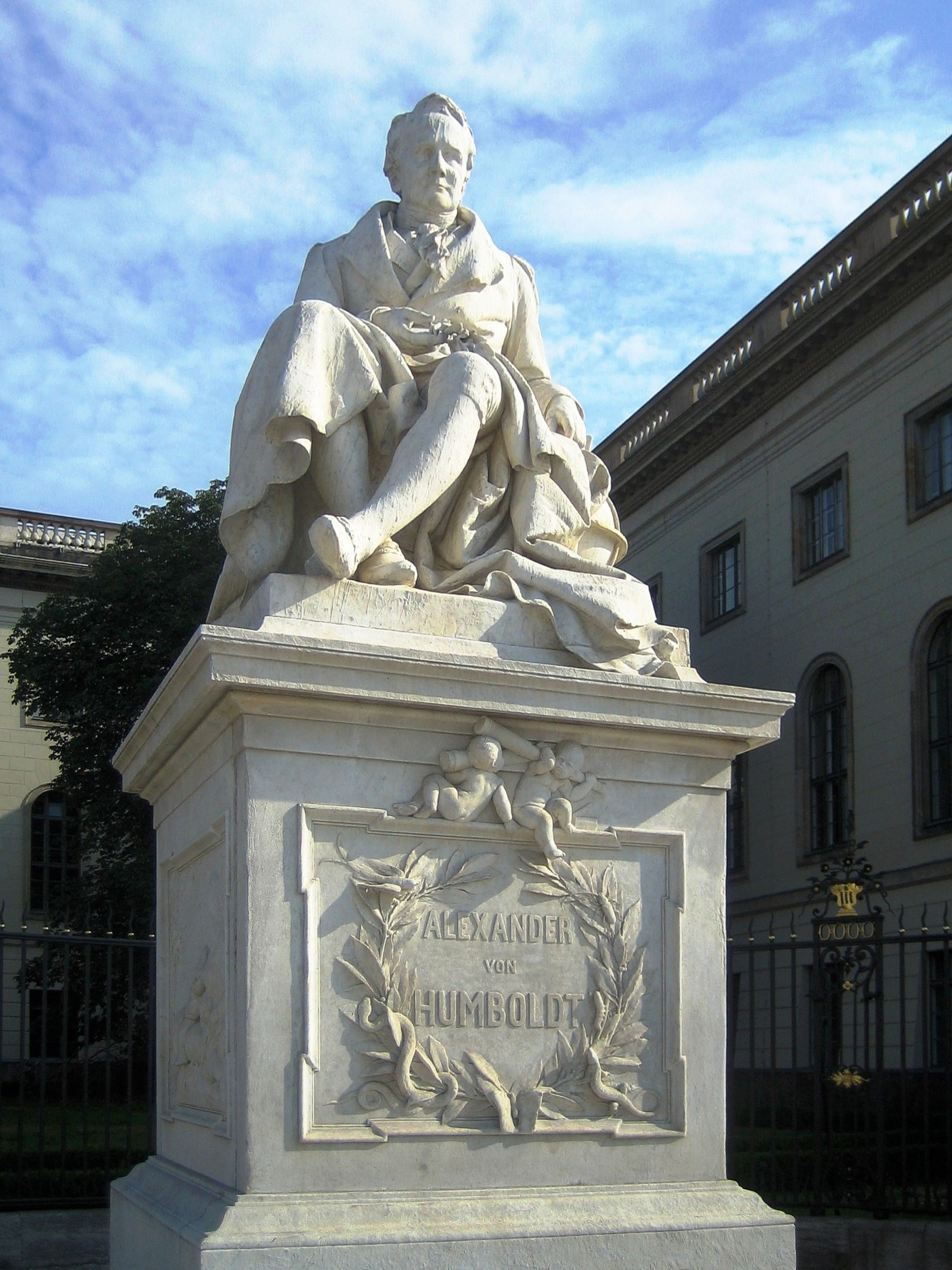 Monument of Alexander von Humboldt in front of the Humboldt-University, Berlin, Germany.